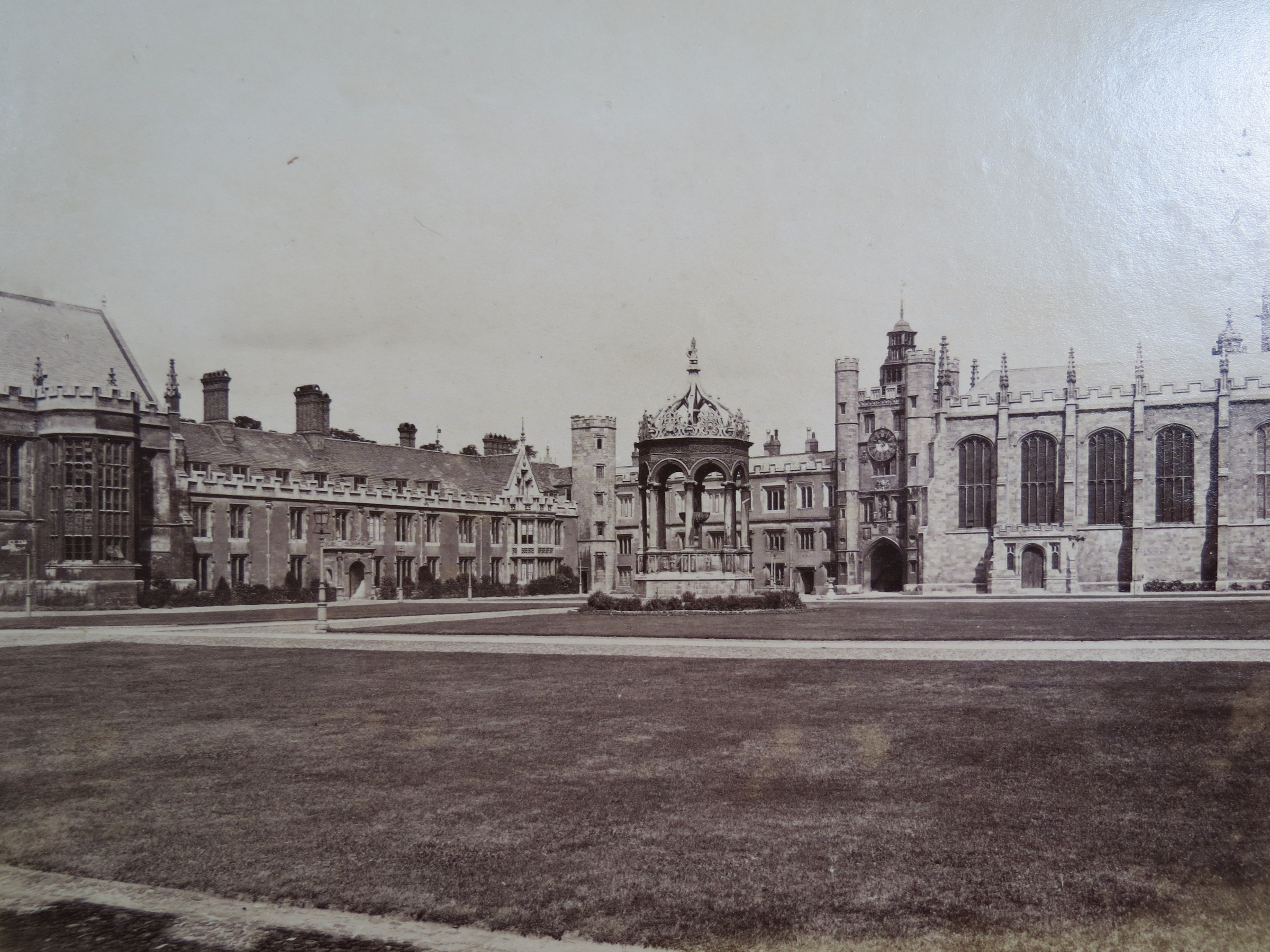 Great Court, Trinity College, Cambridge University, circa 1870. Image taken from original albumen print from a bound album of 58 Cambridge University photographs. Original 19th century album in the possession of Kimberly Blaker, New Boston Fine and Rare Books.